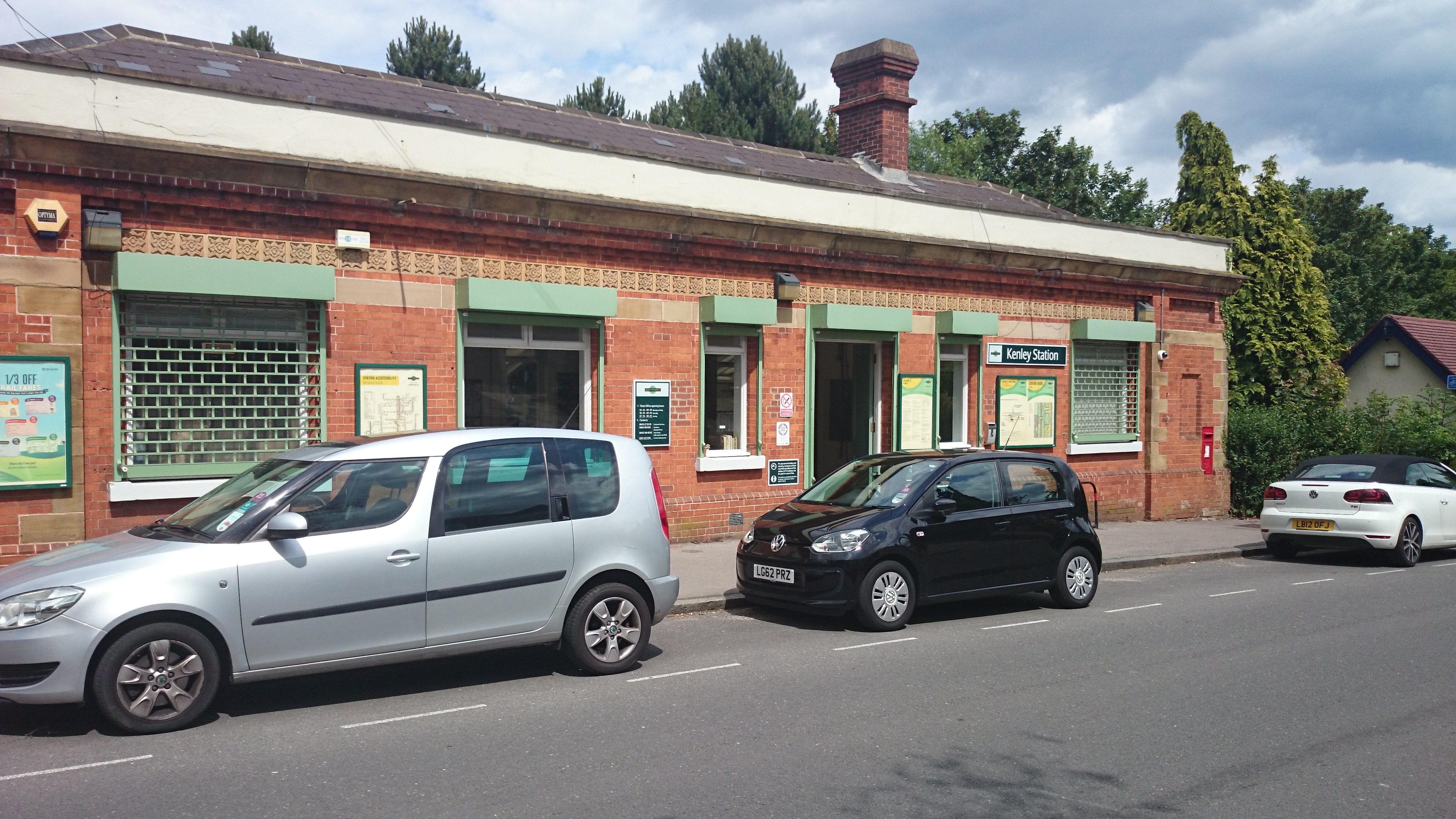 Kenley Railway Station. Main Building on Kenley Lane. Accommodates the ticket office, booking hall and waiting area.